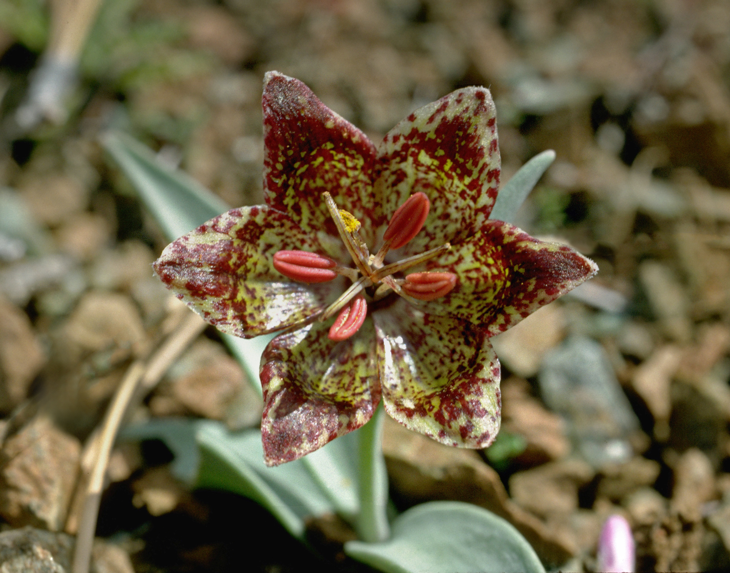 Fritillaria falcata. This rare serpentine-loving species is seen here on Cedar Mountain ("Rancho Repose") in California's Alameda County, on April 10th 1993. Note that one of the six anthers seems to be missing and another has dehisced. This species, at least in its northern form, has broader leaver than the form of the otherwise rather similar Frilillaria pinetorum that occurs on Mount Pinos much further south. Scanned Kodachrome slide.